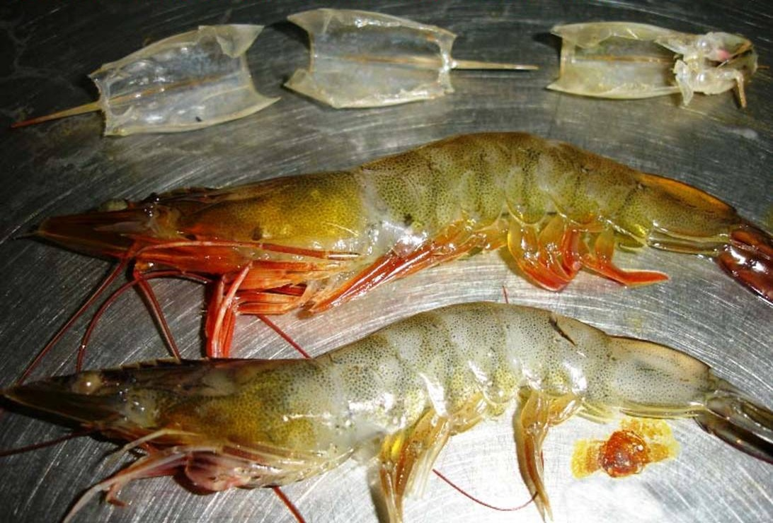 This photo shows from top to bottom: pieces of the carapace of an Whiteleg shrimp; a healthy Whiteleg shrimp as harvested (i.e., the animal is dead; size 66, 17 grams); a dead Whiteleg shrimp infected by the Taura syndrome virus (TSV).